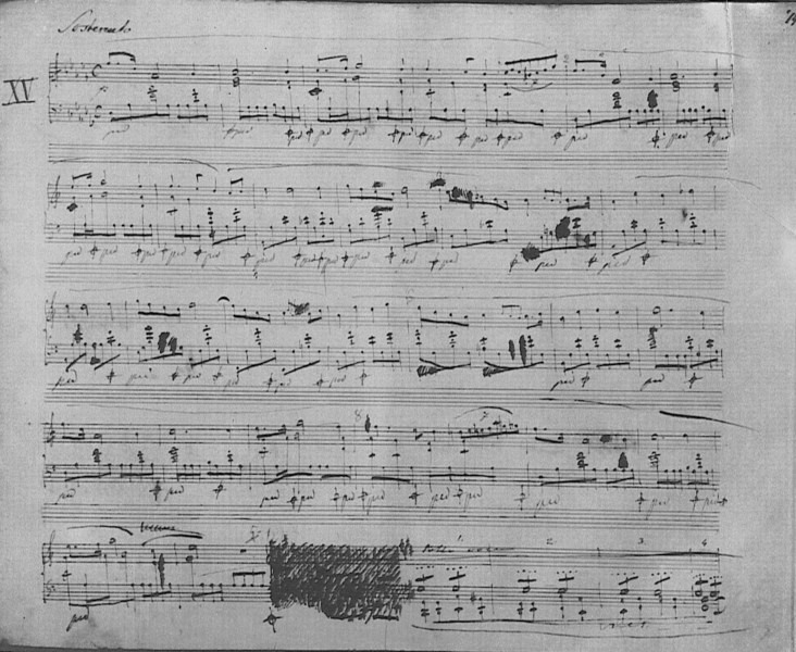 Autograph page of Prelude Op. 28, No. 15 by Fryderyk Chopin.